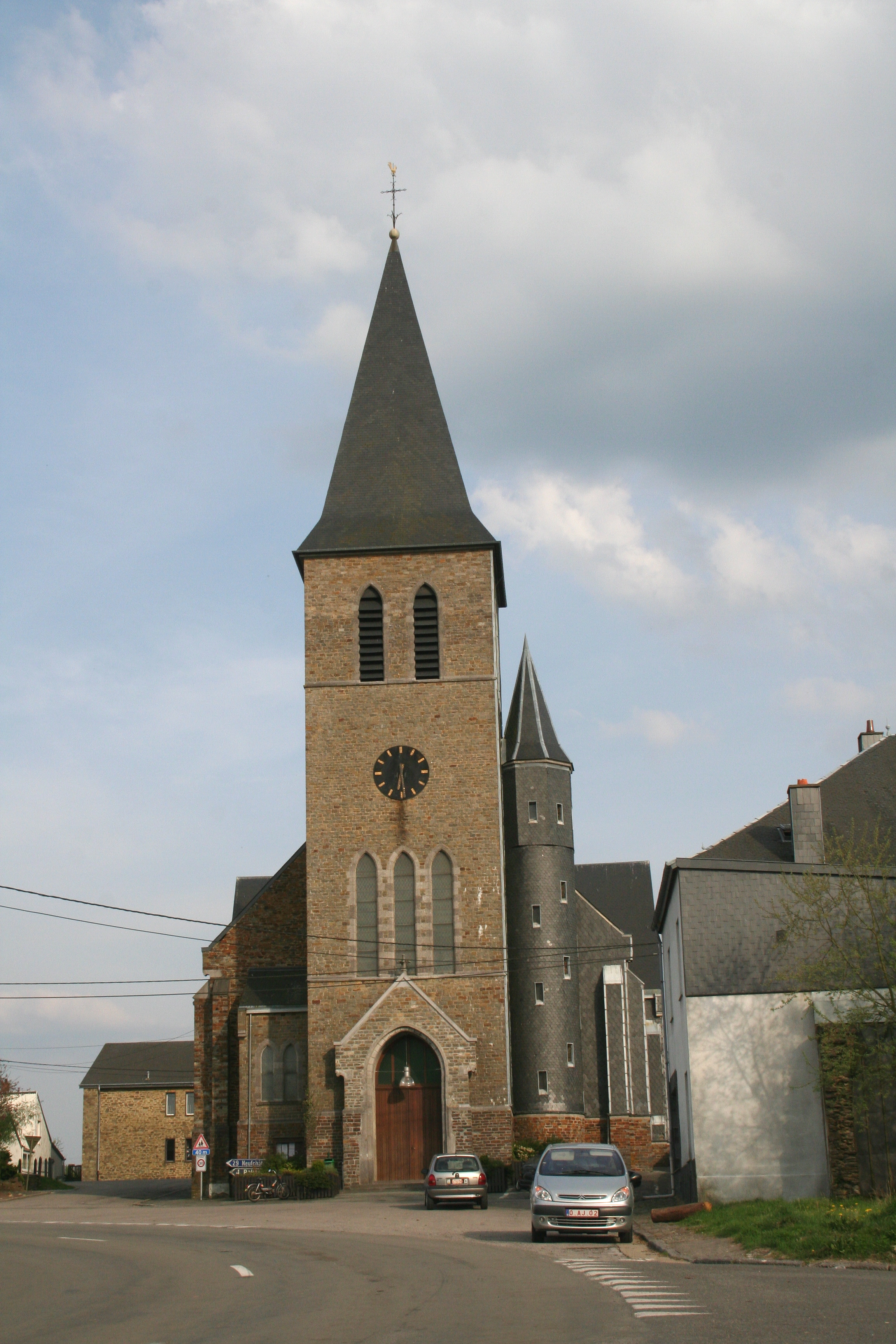 Carlsbourg (Belgium), the St. Gertrude church (1912-1913).